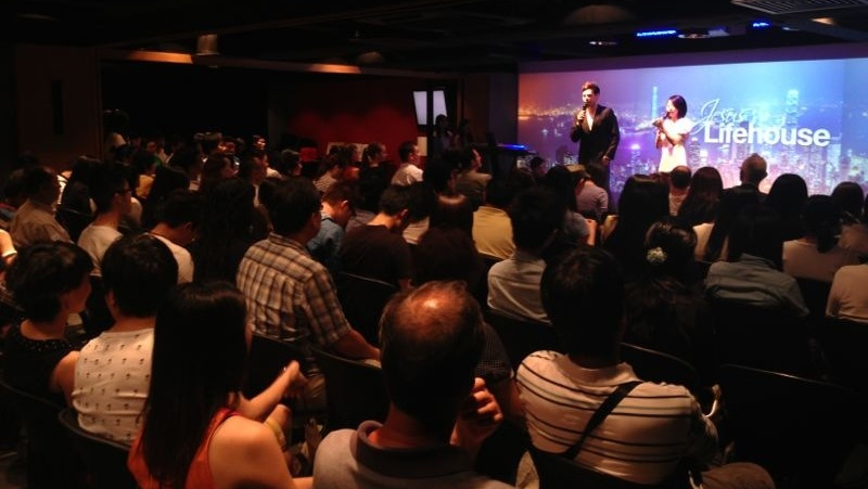 Jesus Lifehouse new church facility in Mong Kok, 2013